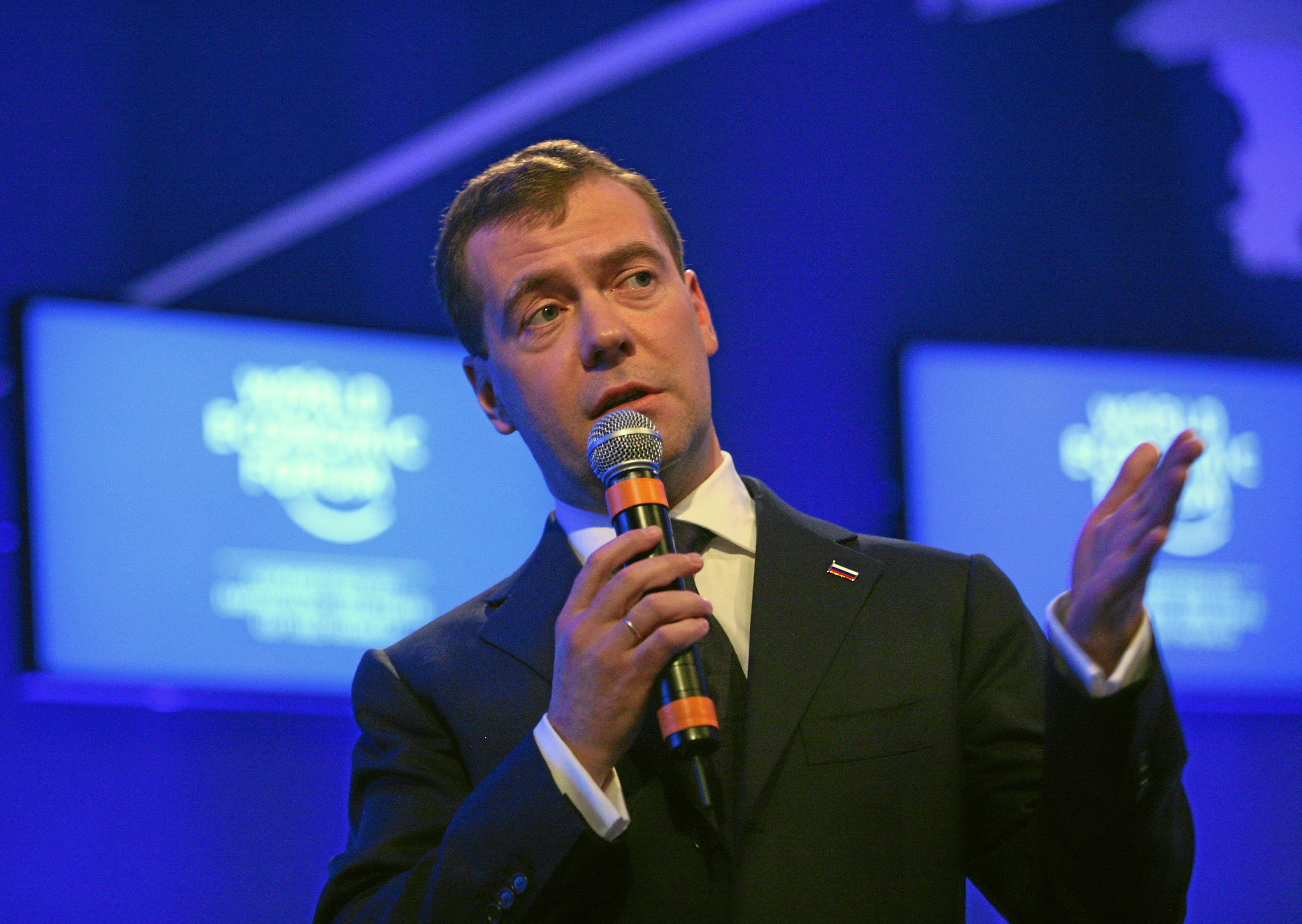 DAVOS/SWITZERLAND, 26JAN11 - Dimitry Medvedev, President of the Russian Federation speaks during the Annual Meeting 2011 of the World Economic Forum in Davos, Switzerland, January 26, 2011. Copyright by World Economic Forum by Remy Steinegger